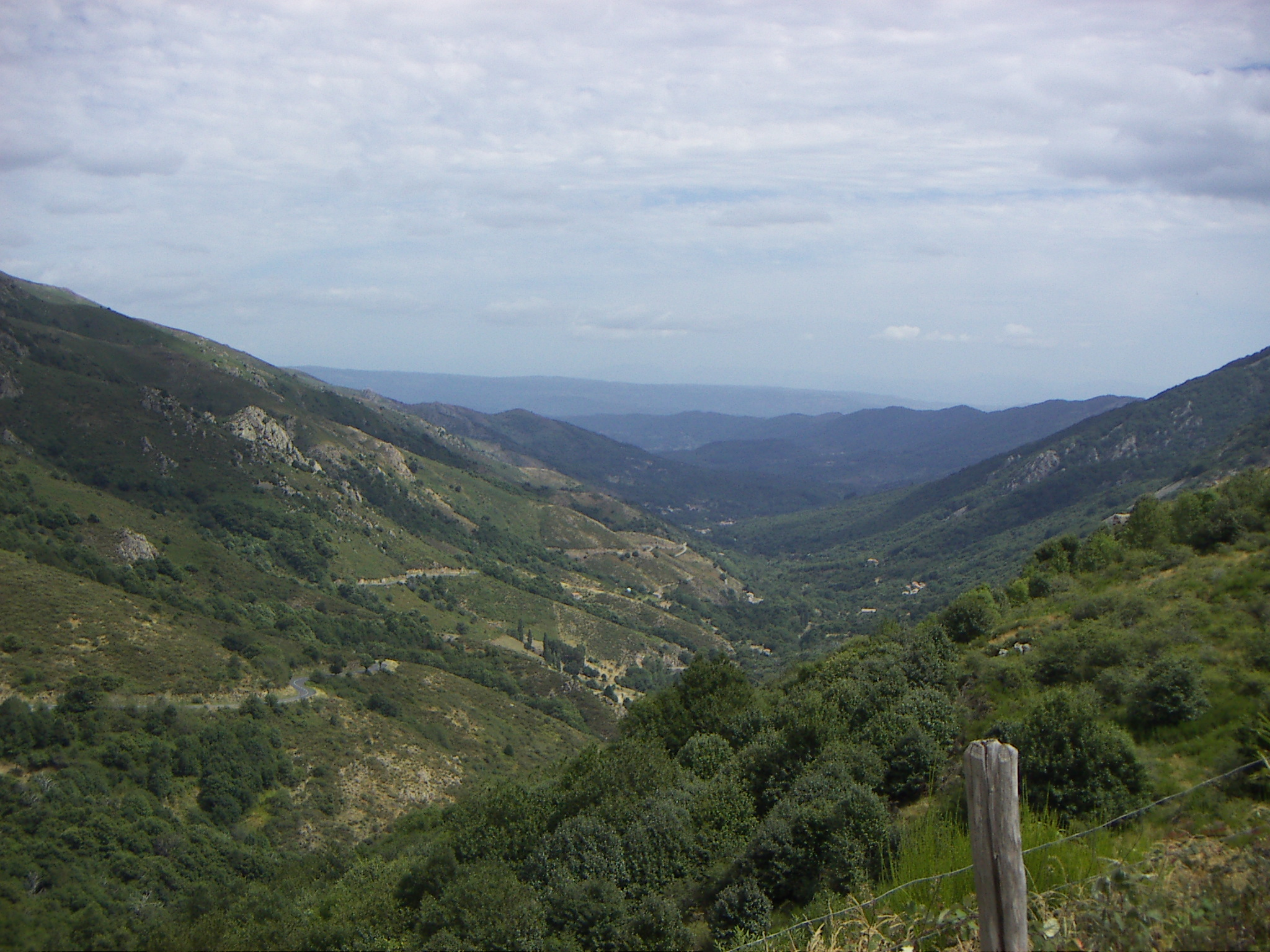 La Souche and Lignon river